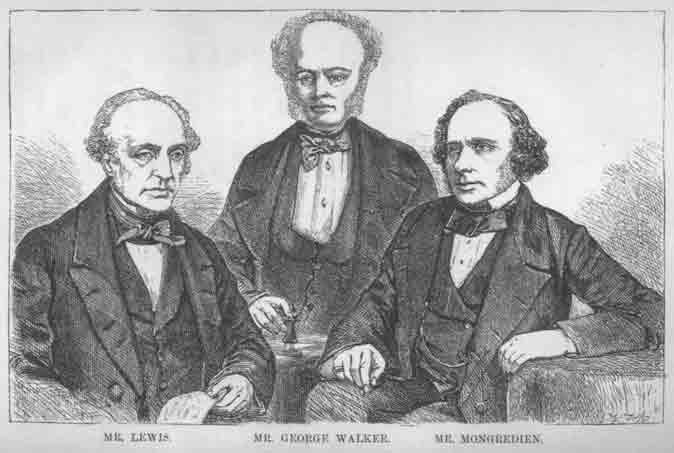 English chess masters of the 19th century William Lewis, George Walker and Augustus Mongredien.